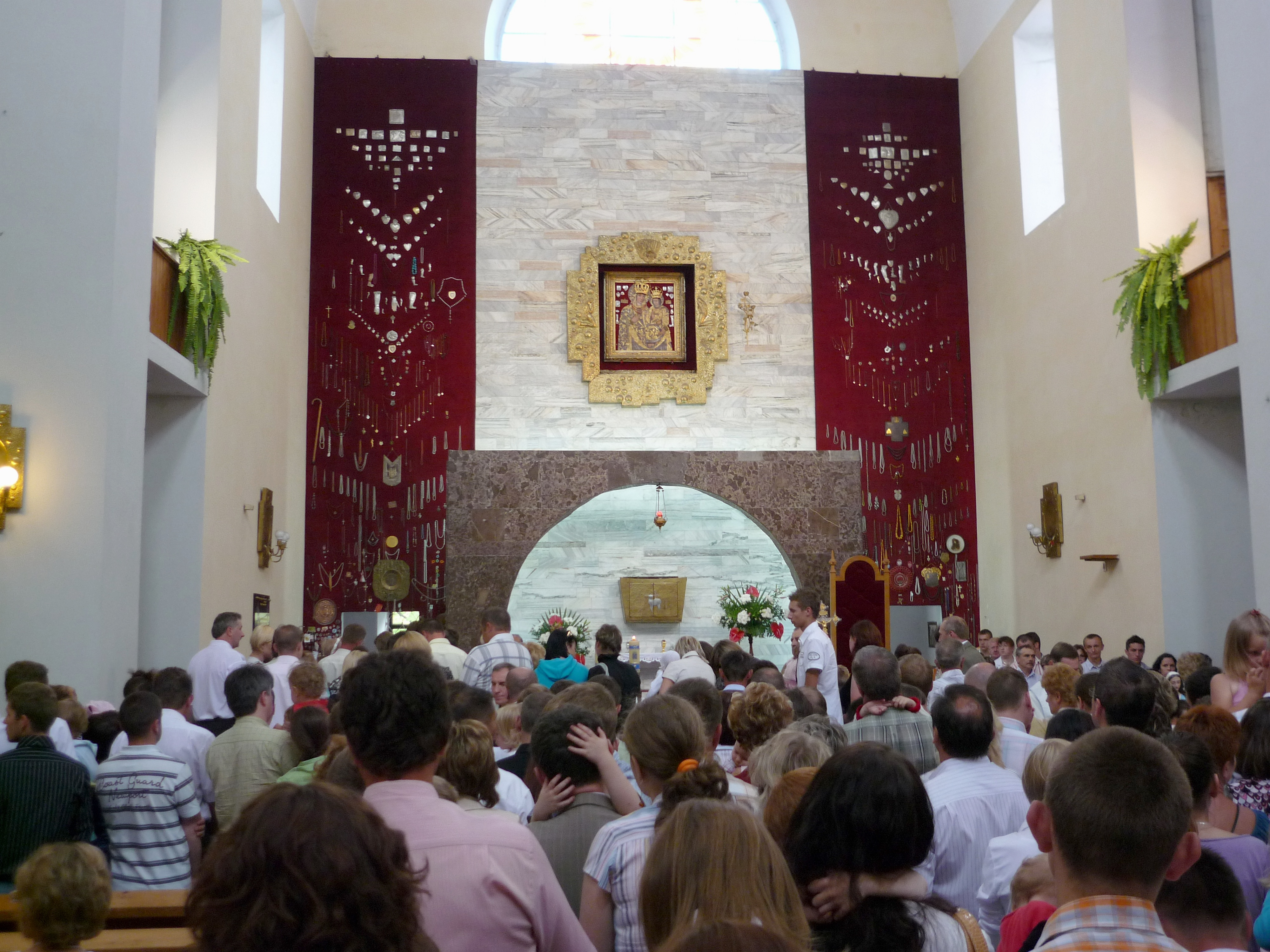 Hodyszewo, Poland - interior of the parish church of the Assumption of Our Lady